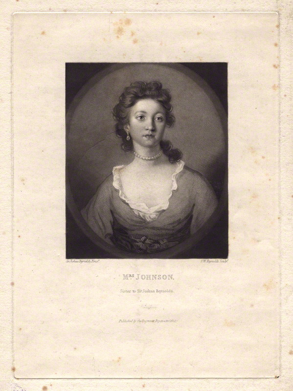 by Samuel William Reynolds, after Sir Joshua Reynolds, mezzotint, published 1822